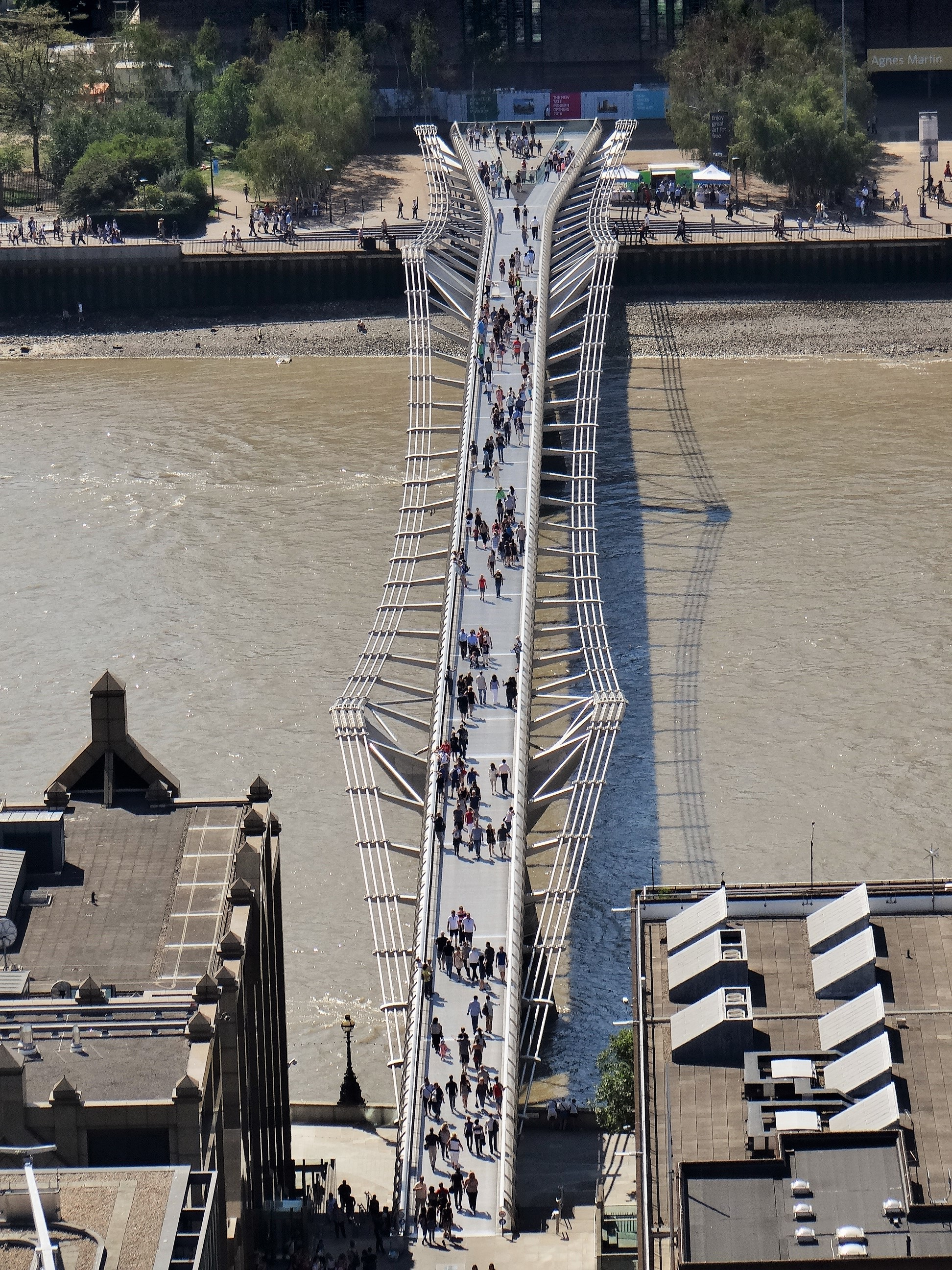 Millenium bridge, London